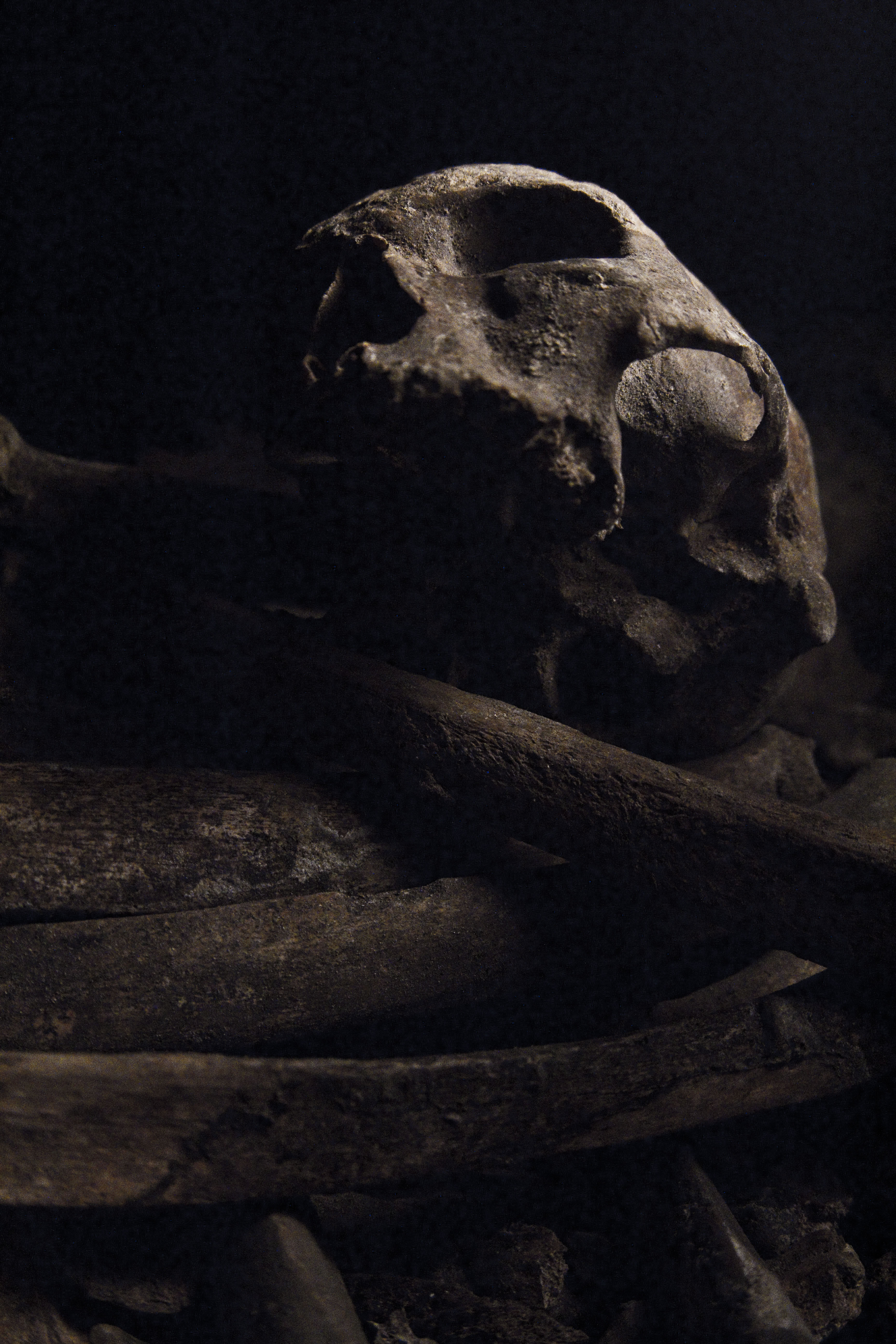 picture of a skull taken at the catacombs in Paris